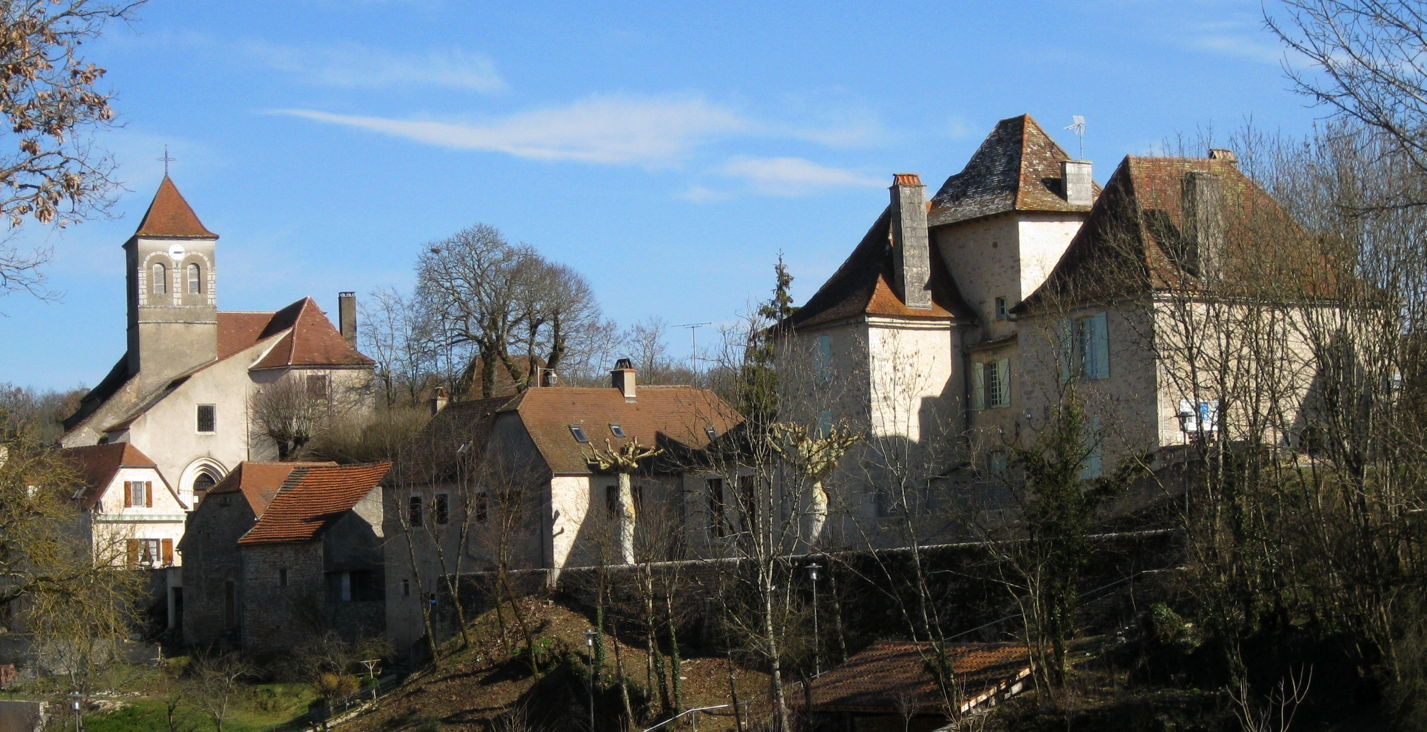 View of Carlucet : village in Lot department in France.